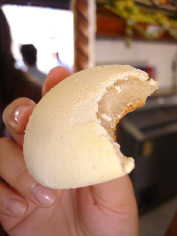 Pandebono (literally meaning ‘good bread’) is a type of bread made of corn flour, cassava starch (tapioca), cheese and eggs. It is consumed with hot chocolate a few minutes after baking when is still warm. It is very popular in the Colombian department of Valle del Cauca.